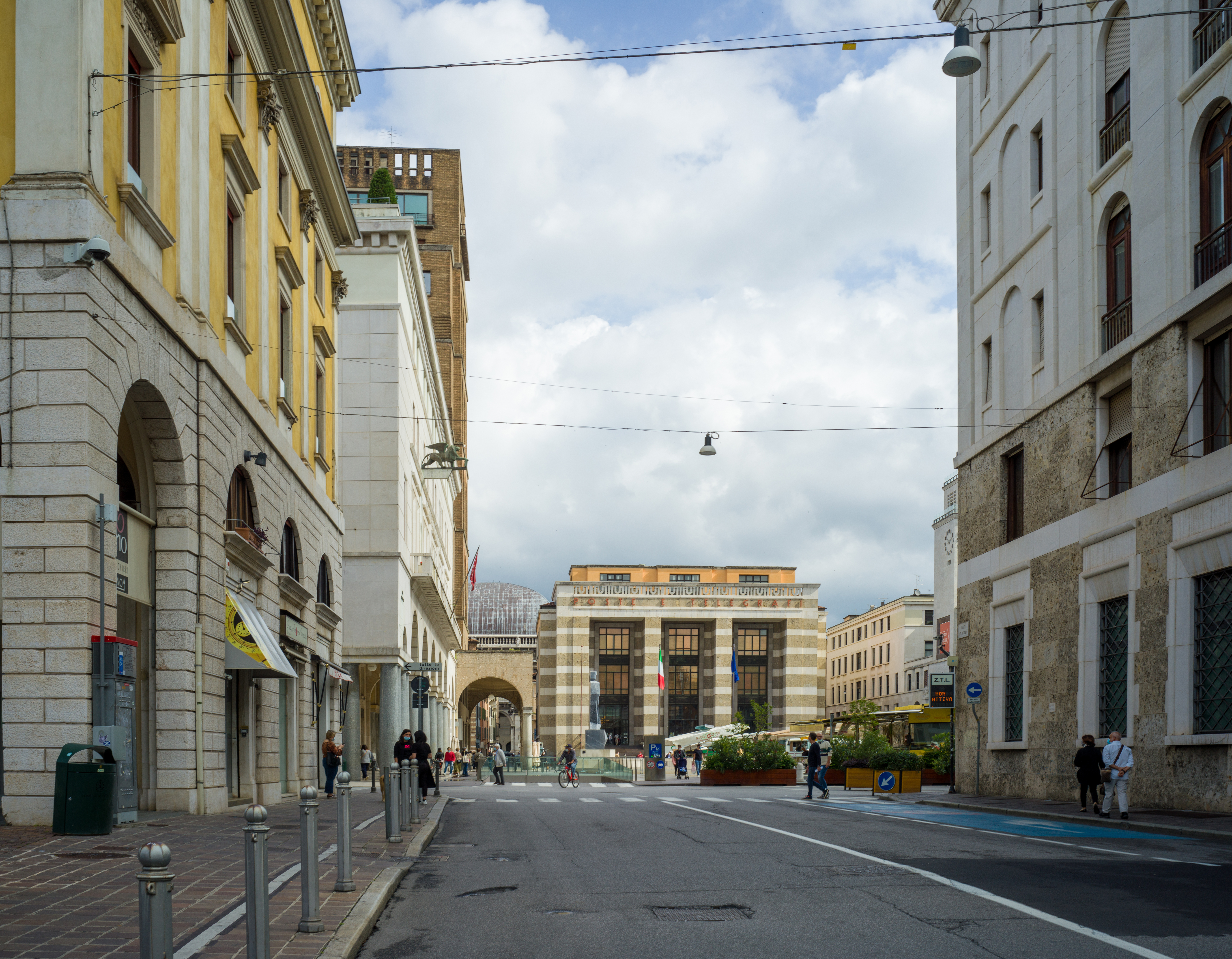 Piazza del Mercato in Brescia.